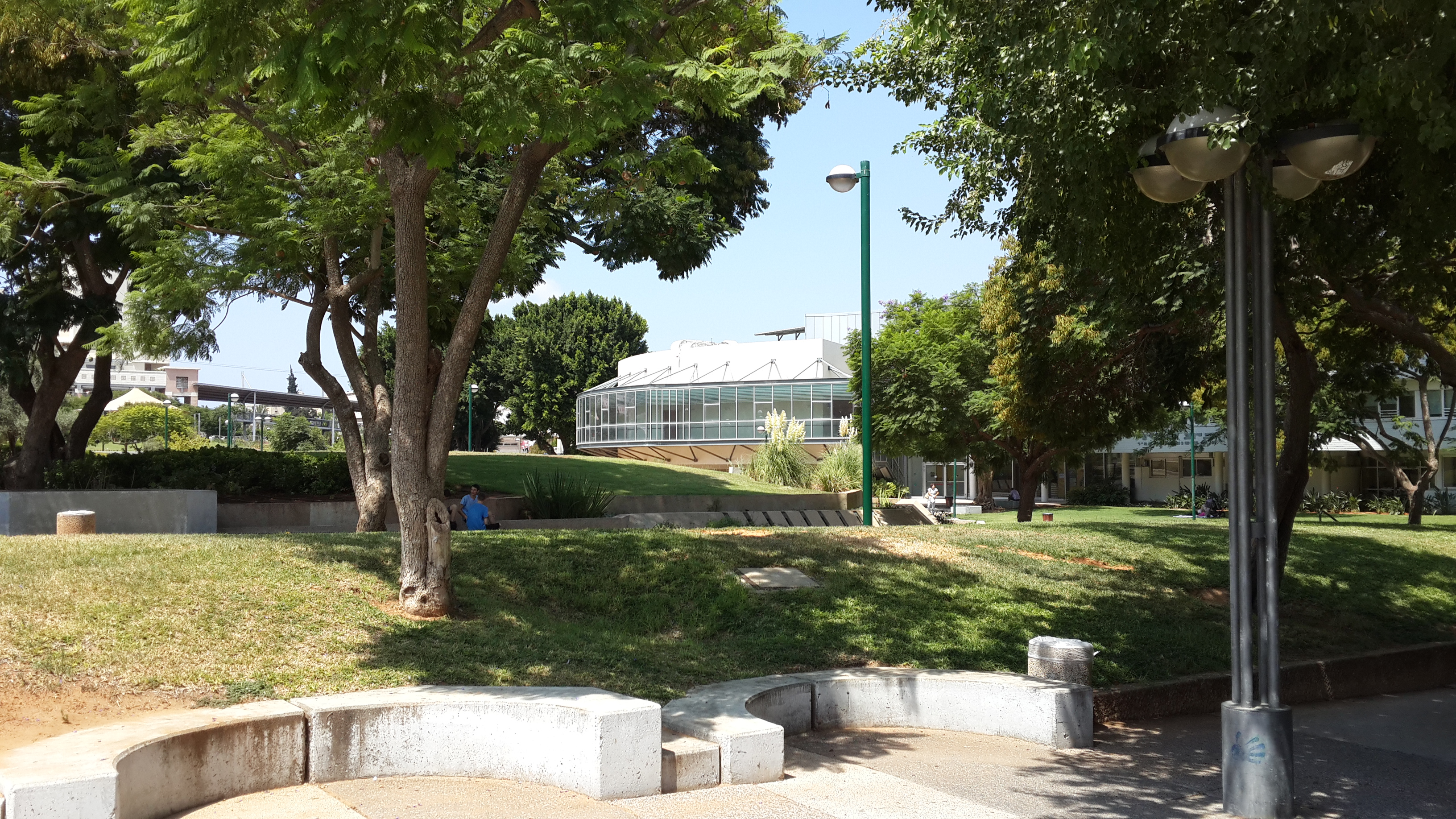 Overlooking the Beit Sapir Auditorium from the Jerusalem pedestrian street in Kfar Saba, Israel. The Arim open-air mall can be seen in the background.